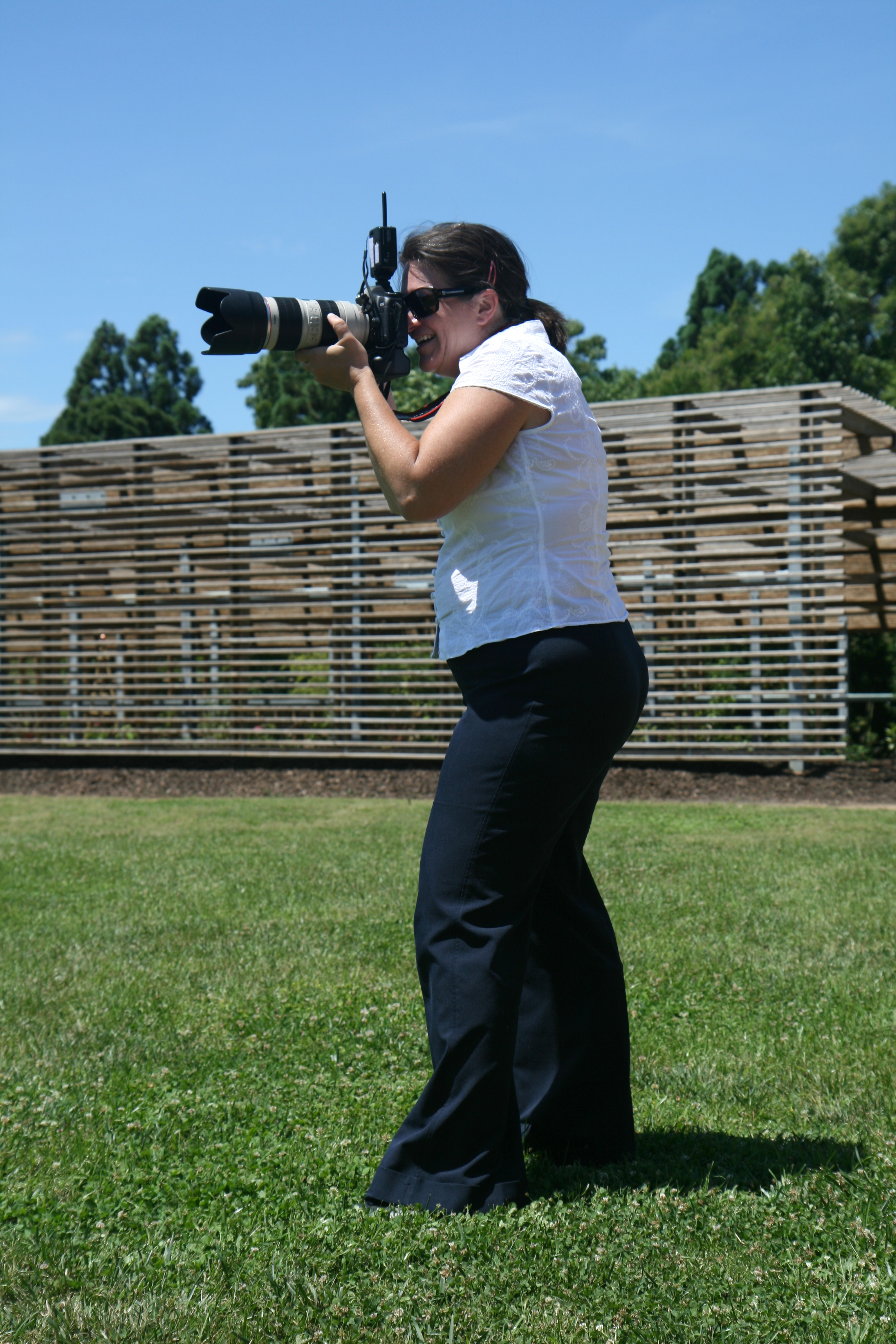 Photographer takes a picture at a wedding held at the J. C. Raulston Arboretum in Raleigh, North Carolina.